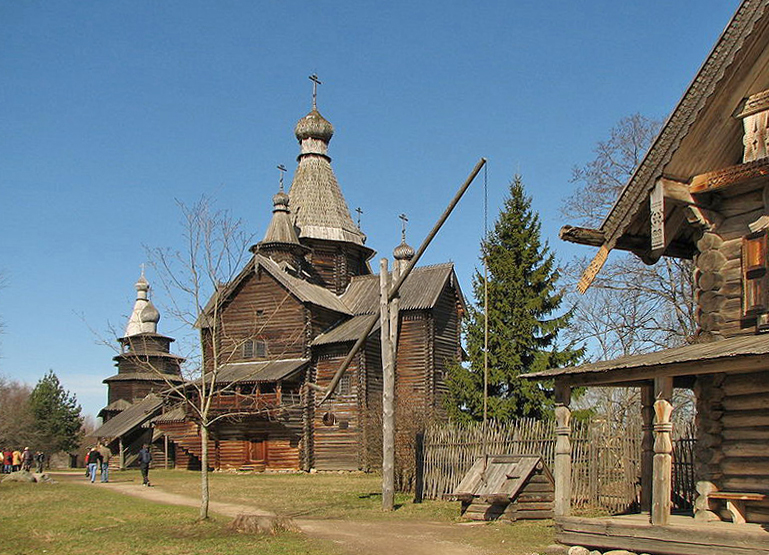 Wood buildings museum in Vitoslavlicy